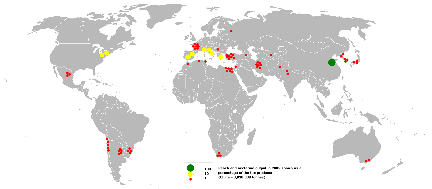 This bubble map shows the global distribution of peach and nectarine output in 2005 as a percentage of the top producer (China - 6,030,000 tonnes). This map is consistent with incomplete set of data too as long as the top producer is known. It resolves the accessibility issues faced by colour-coded maps that may not be properly rendered in old computer screens. Data was extracted on 9th June 2007 from Based on Image:BlankMap-World.png